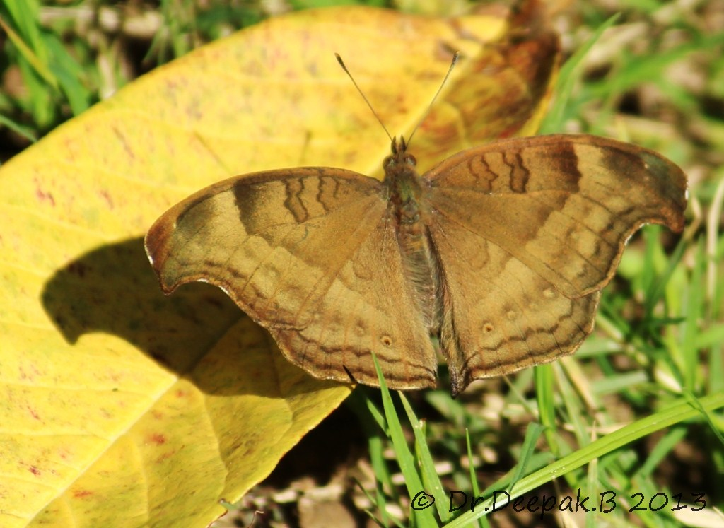 This is a picture of the Chocolate pansy butterfly as it rested on a leaf lazing in the afternoon sun.